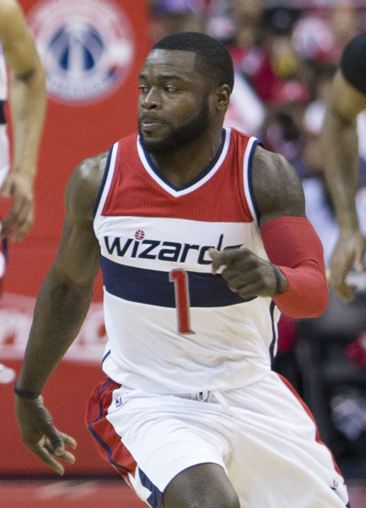 Hawks at Wizards 5/9/15